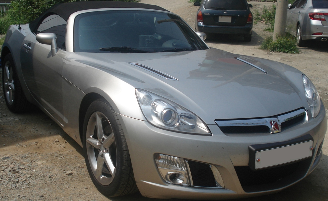 Daewoo G2X